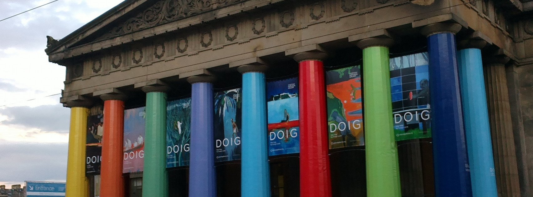 Scottish National Gallery, Academy Entrance. As-decorated for the Peter Doig exhibition, No Foreign Lands, in 2013.